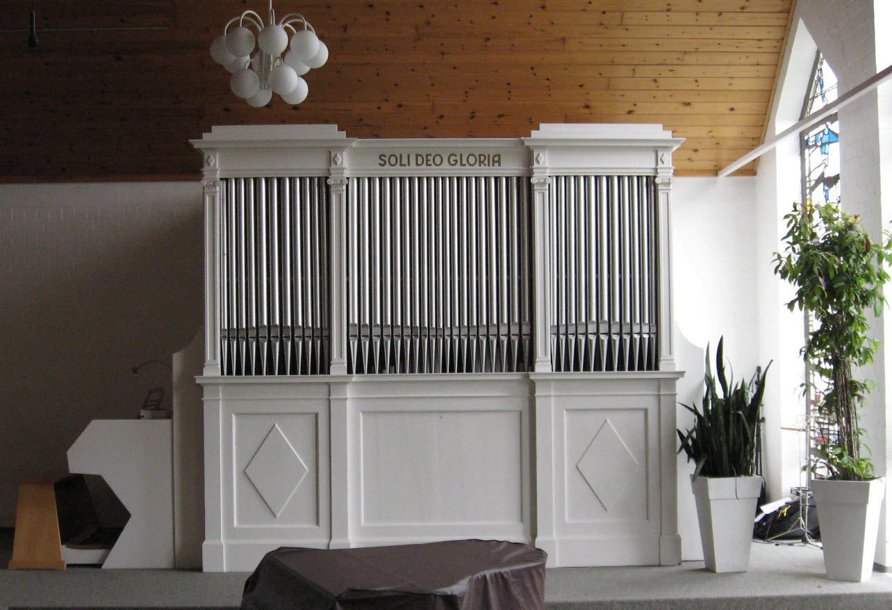 Organ in Baptist Church Ihren, East Frisia